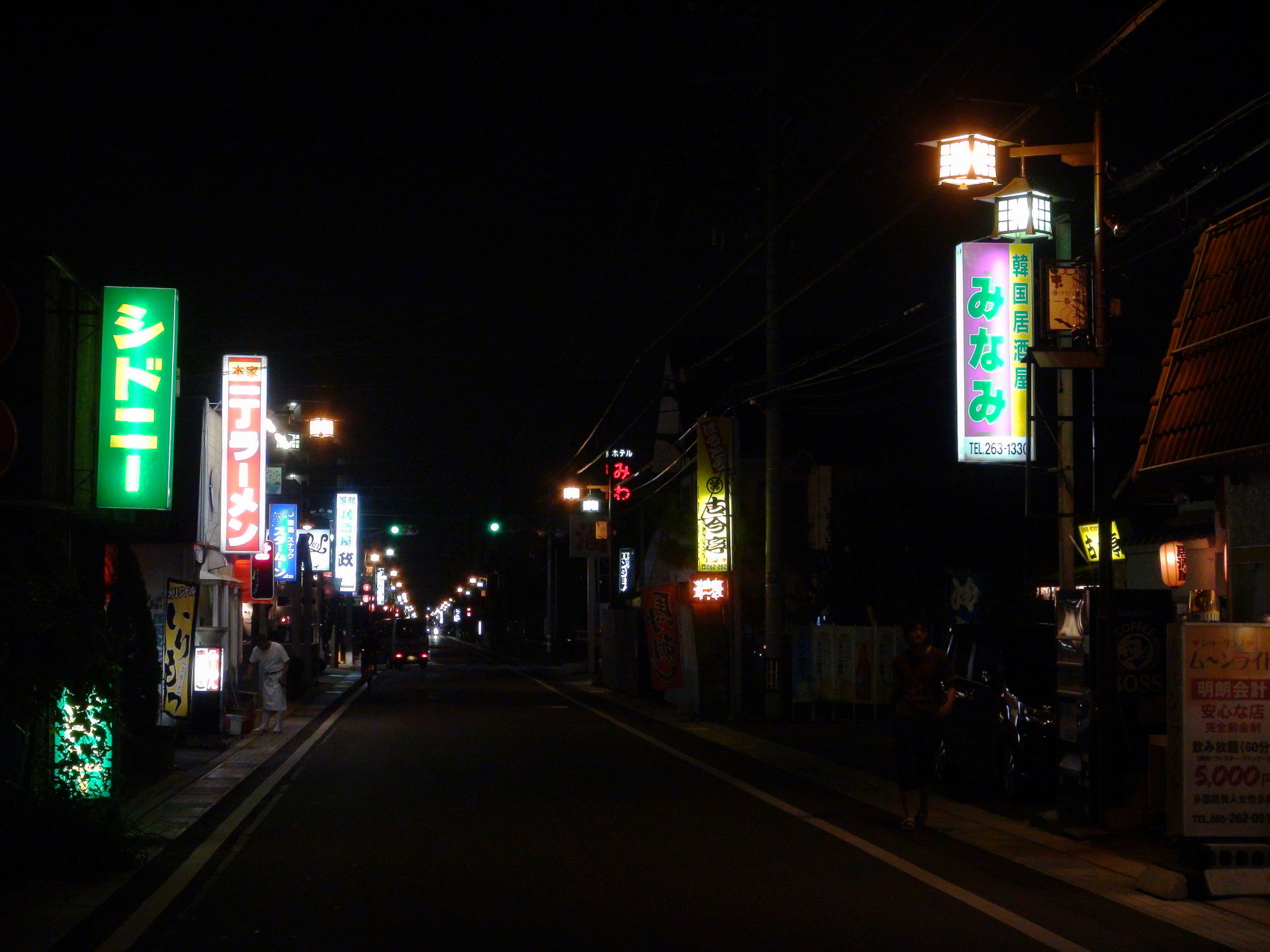 The night of Isawa spa town Aug.2013